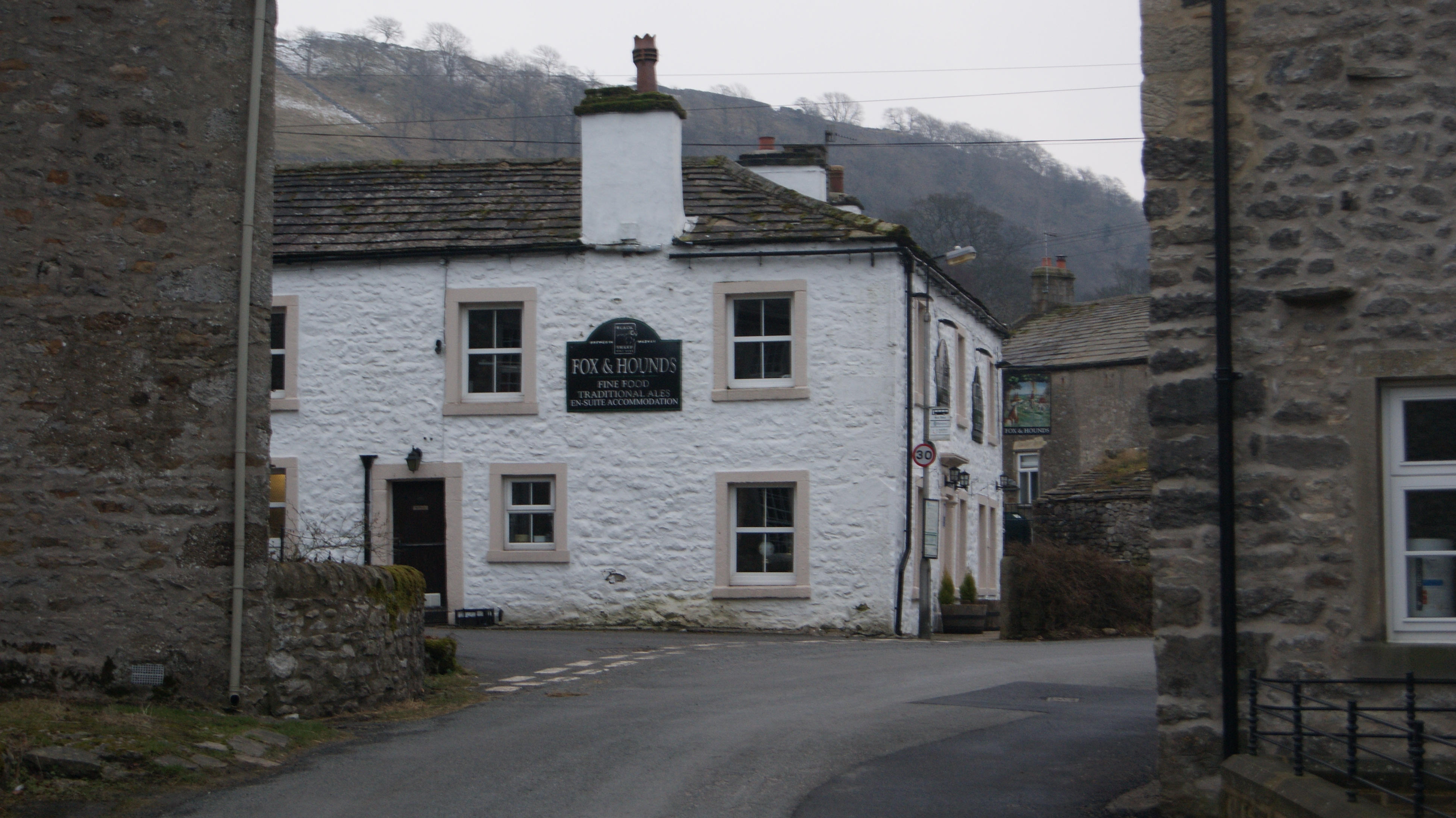 Fox and Hounds, Starbotton. North Yorkshire. Taken on the afternoon of Tuesday the 12th of February 2013.